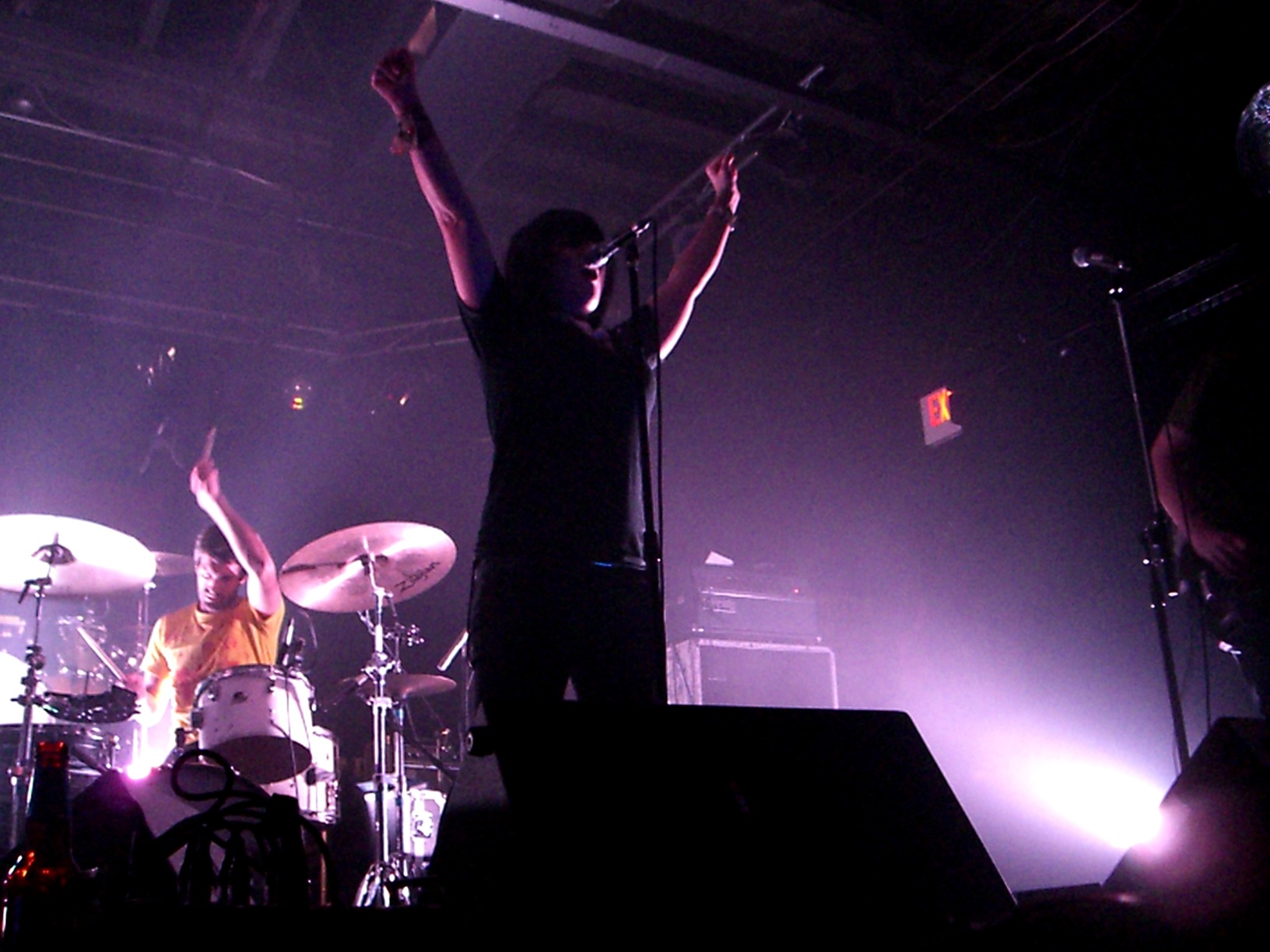 Pretty Girls Make Graves. Live in Orlando FL.